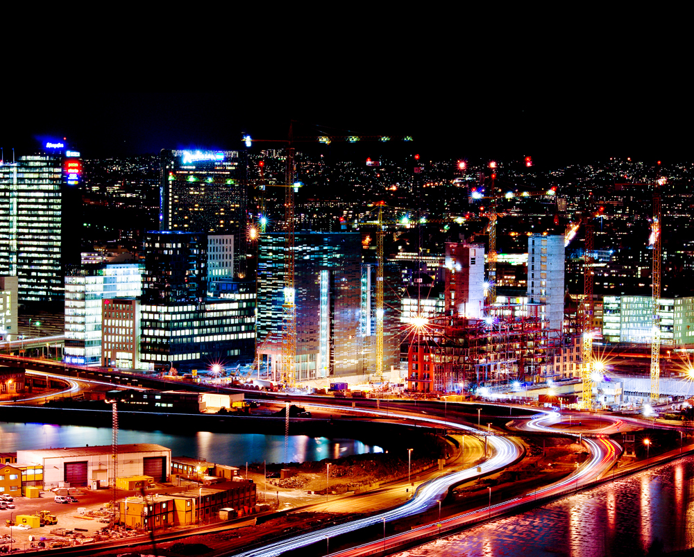 The Barcode Project is a section of the Bjørvika portion of the Fjord City redevelopment on former dock and industrial land in central Oslo. It consists of a row of new high-rise buildings, due to be completed in 2014, which will house 10,000 offices and some 500 apartments. The developer is marketing the project as "The Opera Quarter." The general plan was based on an international competition to plan the new Bjørvika, which was won by Dark Architects (of Oslo), a-lab, and MVRDV (of Rotterdam).